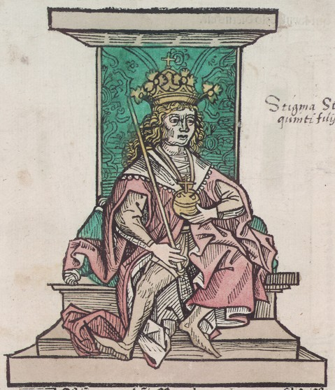 Stephen V of Hungary